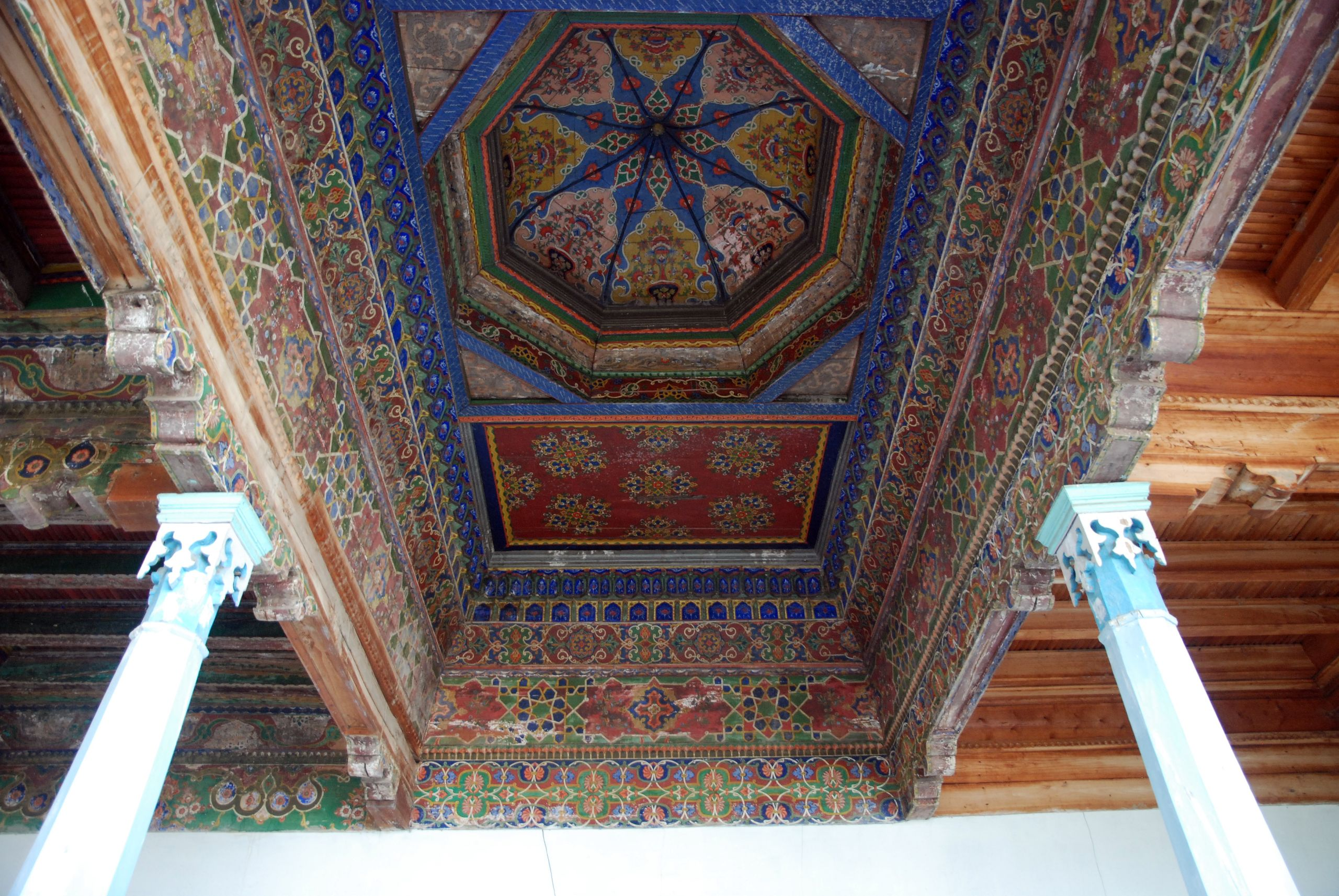 Isfara, small mosque